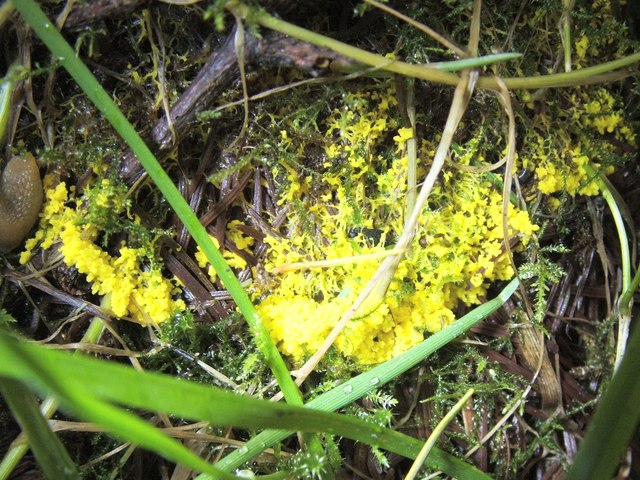 Plasmodium of a slime mould - Fuligo septica. Fuligo septica is one of the most common slime moulds; it is shown here in its "plasmodium" stage, before it has reached maturity. The plasmodium is a mass of naked protoplasm which slowly streams over leaf litter and other material, effectively behaving like a giant amoeba, engulfing bacteria and fungal spores as it goes. Plasmodia often spread out in a fan-shaped pattern, with most of their mass concentrated at the leading edge, as is the case here: this slime mould is heading in the direction of the blades of grass at the bottom of the photo. For most of the plasmodial phase, the slime mould would appear rather more liquid in consistency; it is only at the end of this stage, when it is about to enter the spore-producing phase, that the material begins to knot (or clump) in the manner shown in this photo. The following photo, by another contributor, shows a more typical plasmodium, probably that of the same species, but at an earlier stage: 1458412.